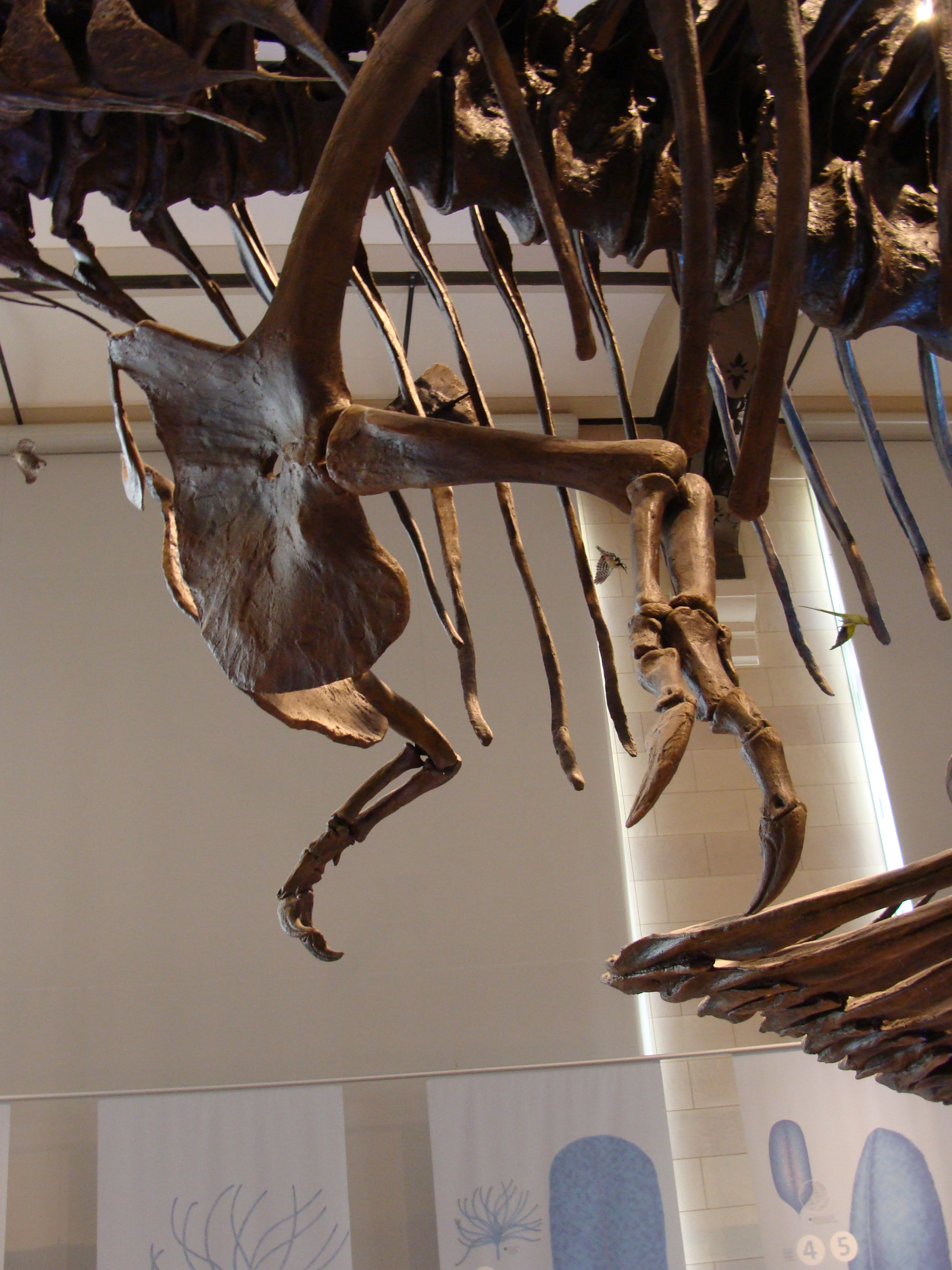 Tyrannosaurus rex forelimbs detail, in the Royal Belgian Institute of Natural Sciences.